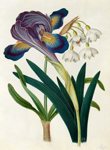 Botanical illustration of Painted Iris and Summer Snowdrop by James Bolton (1735-1799)